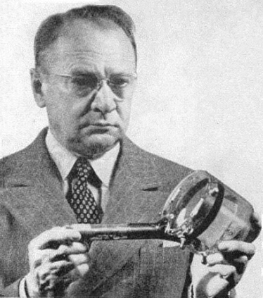 Russian-American electrical engineer Vladimir Zworykin holding his iconoscope television camera tube around 1950. The iconoscope, developed by Zworykin between 1923 and 1933 at RCA laboratories, was the first successful electronically-scanned television camera tube. It consists of an evacuated glass envelope containing a square photosensitive mica target onto which the image is projected by an external lens. In the light areas of the image, the light knocks electrons off the target surface, discharging it. An electron beam from an electron gun to the side scans the target. Areas which are charged scatter the electron beam, and the current is picked up by a collector electrode. The iconoscope was the main television camera tube used between 1936 and 1946, when it was superseded by the image orthicon.